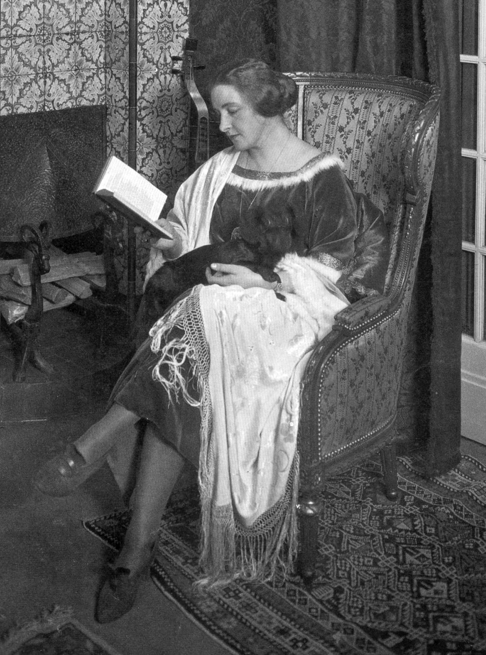 Henny Porten in her house in Berlin-Dahlem.